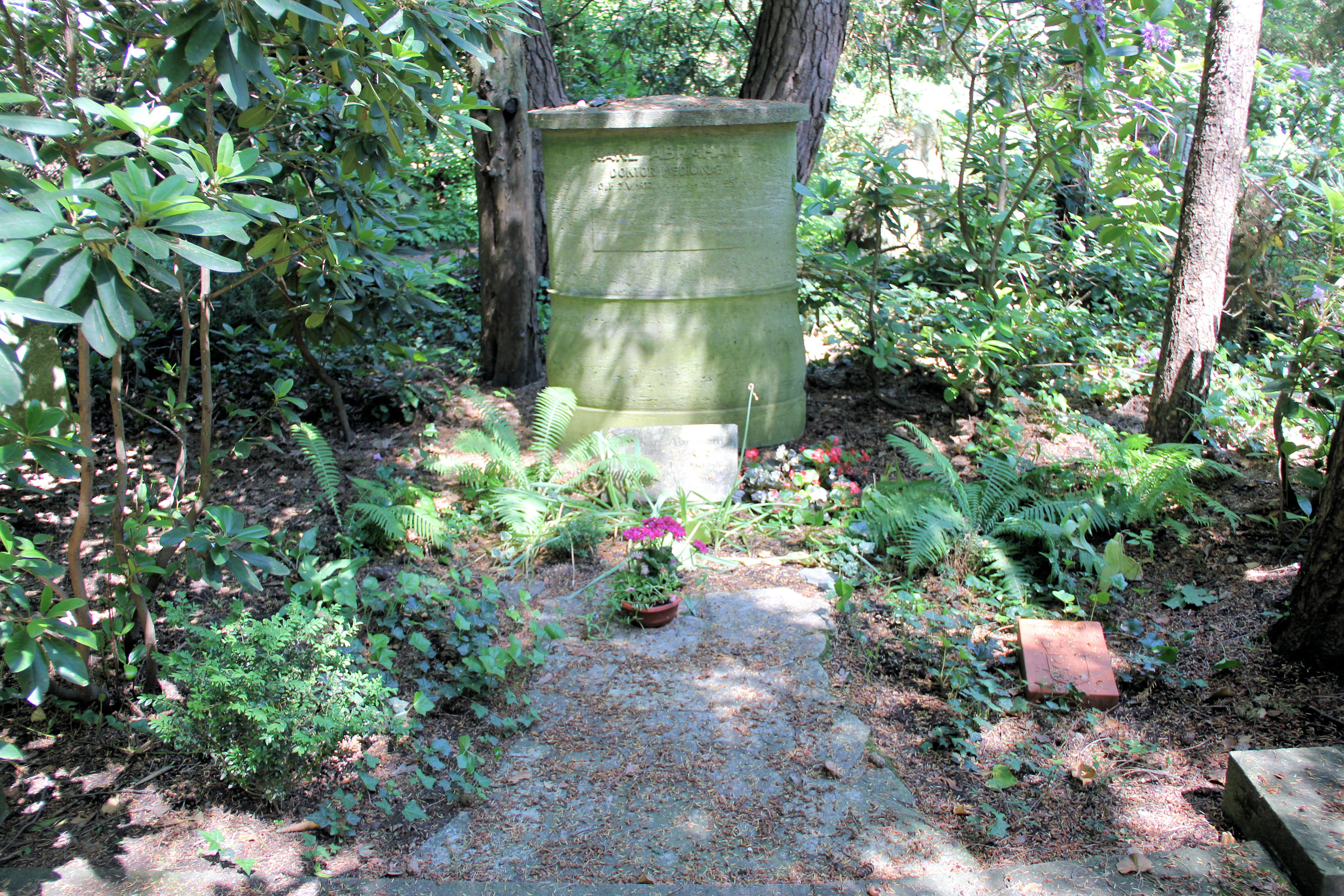 "Ehrengrab" (grave of honor), Karl Abraham, Thuner Platz 2-4, Berlin-Lichterfelde, Germany